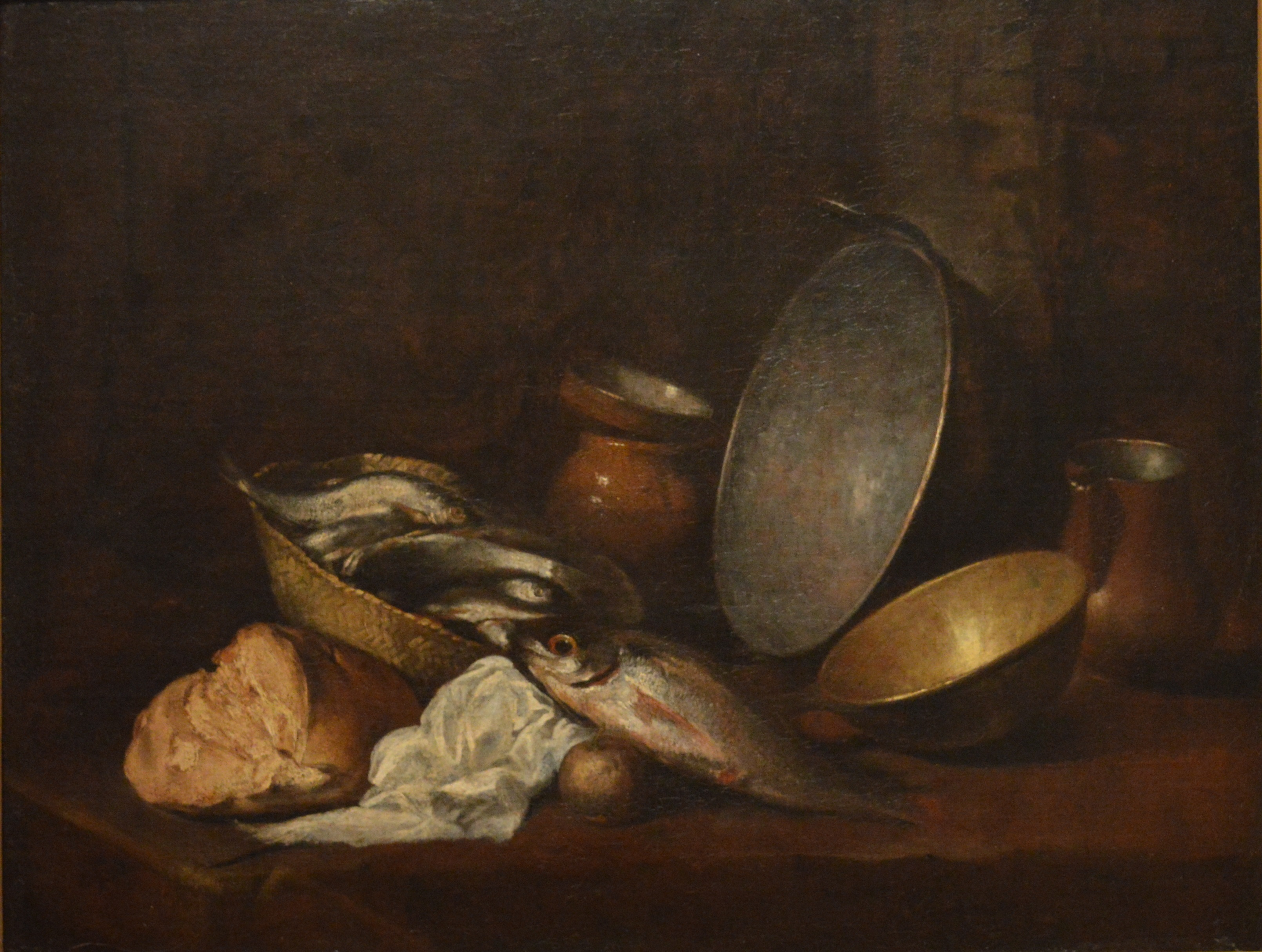 Still Life with Fish and Fishing Rod